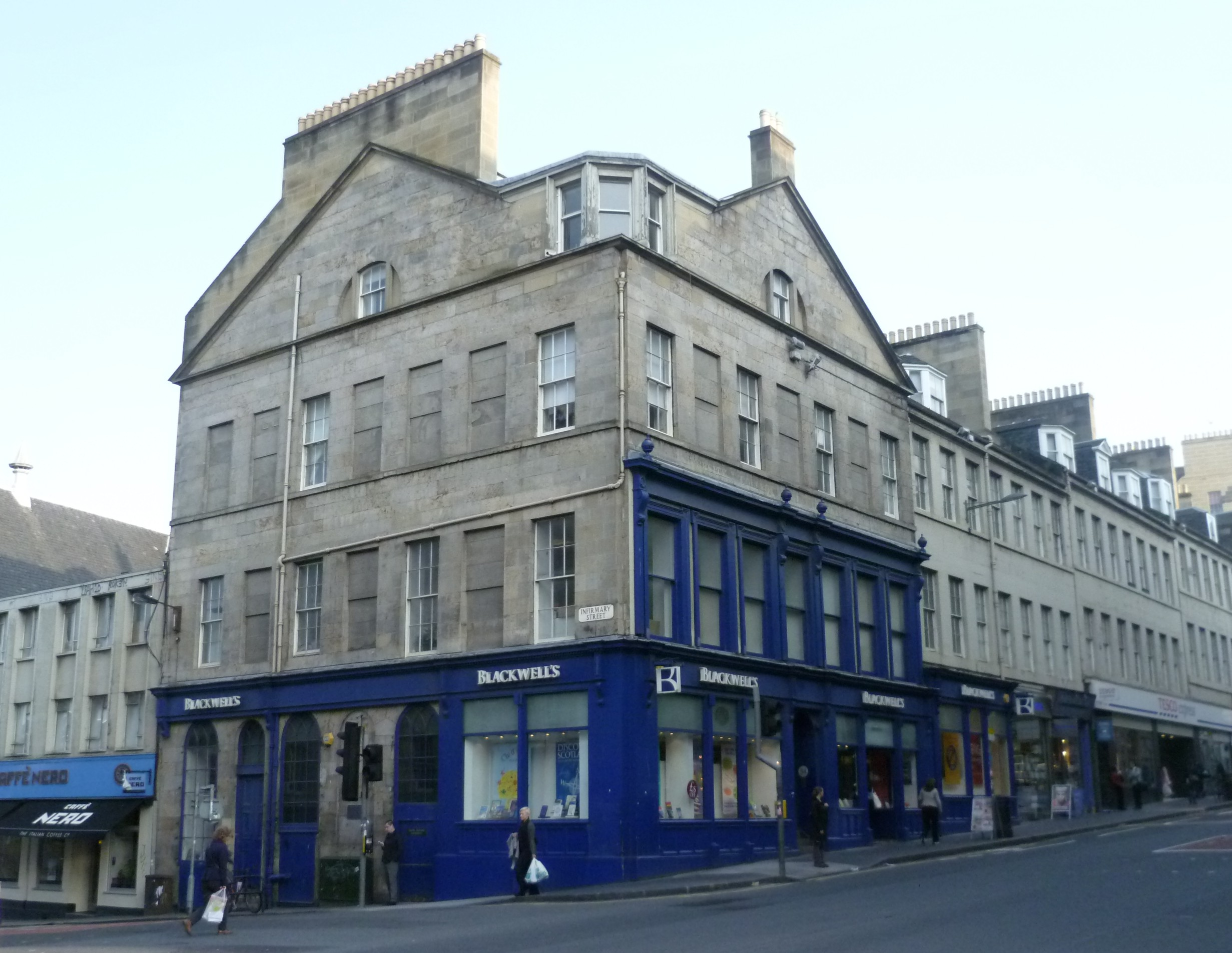 The principal academic bookshop for Edinburgh University, part of the Blackwell's chain since 2002